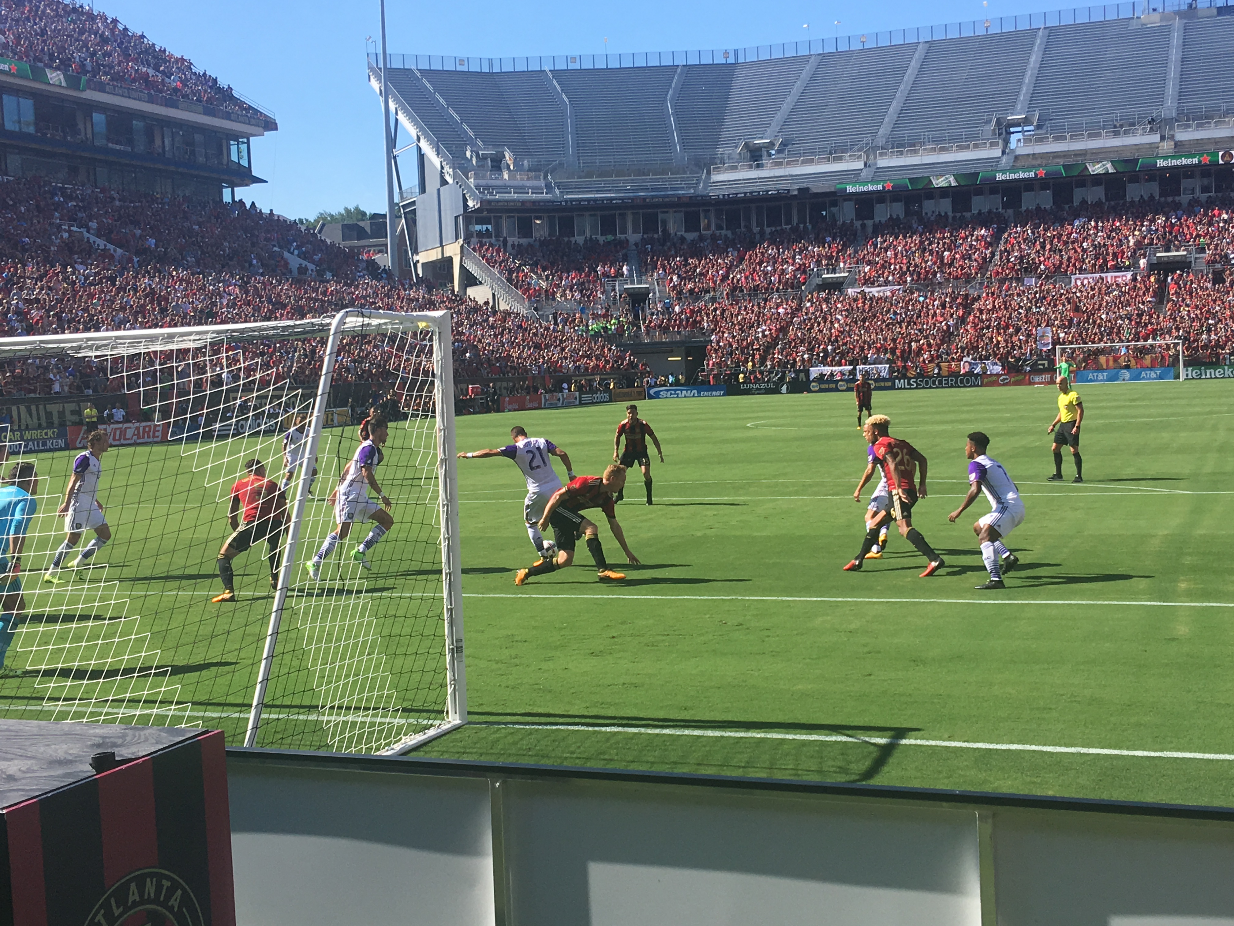 2017-07-29 - Atlanta United vs Orlando City